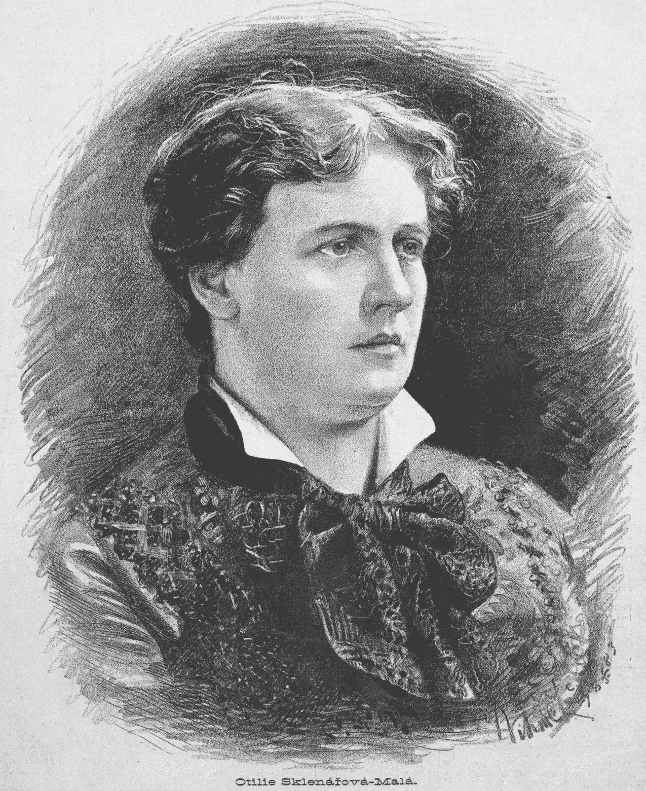 Portrait of Otilie (Otýlie) Sklenářová-Malá, Czech actress.